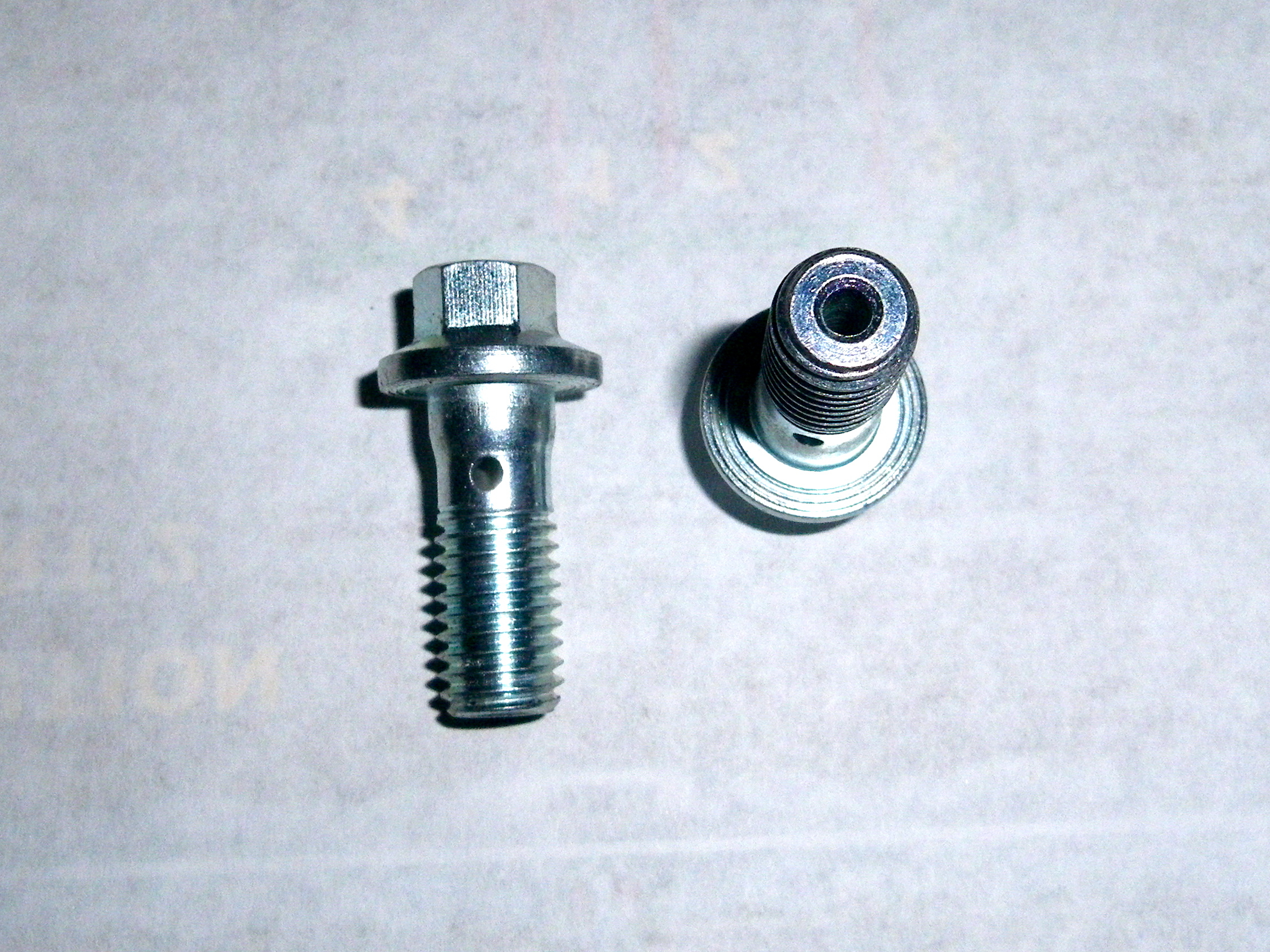 A pair of banjo bolts, used on automotive brake unions.